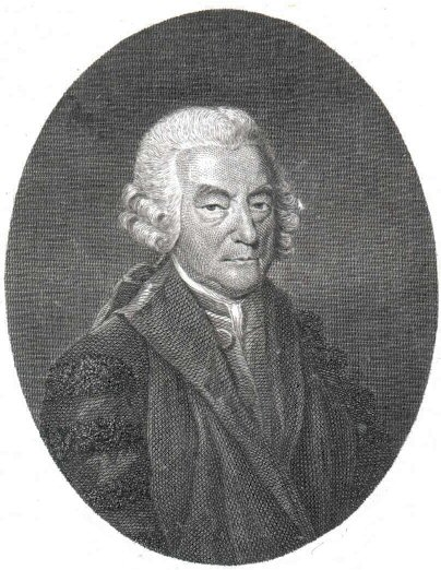 From here William Watson (scientist). (1715 - 1787). Disciplines: Physics ; Botany ; Medicine